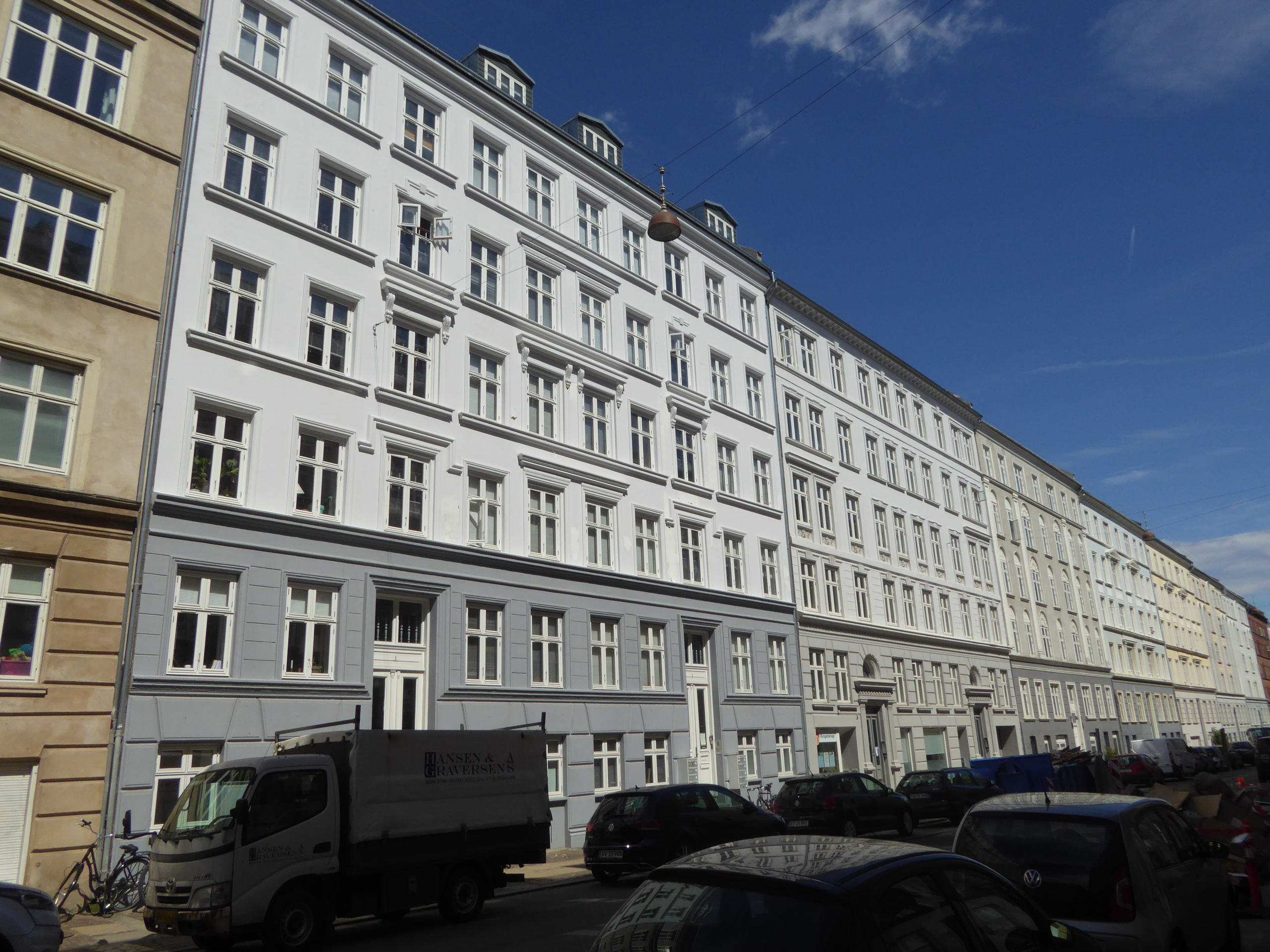 Apartment buildings at Viborggade in Østerbro in Copenhagen